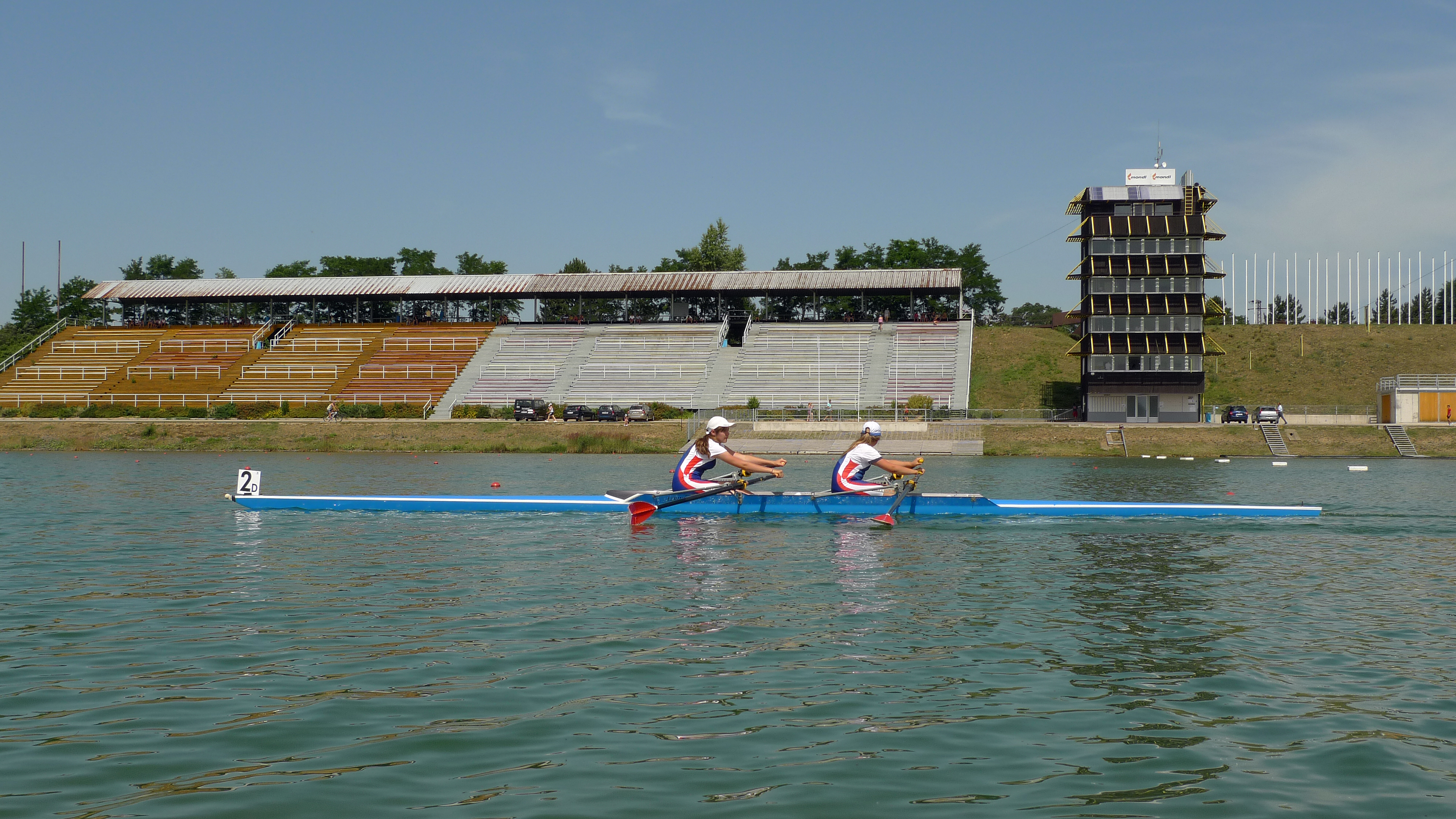 Rowing Canal Račice, Czech Republic